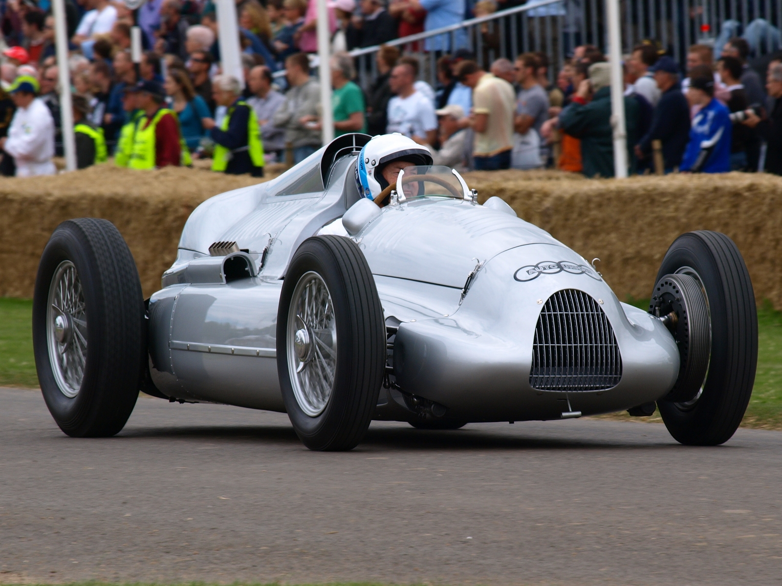 Auto Union Nick Mason